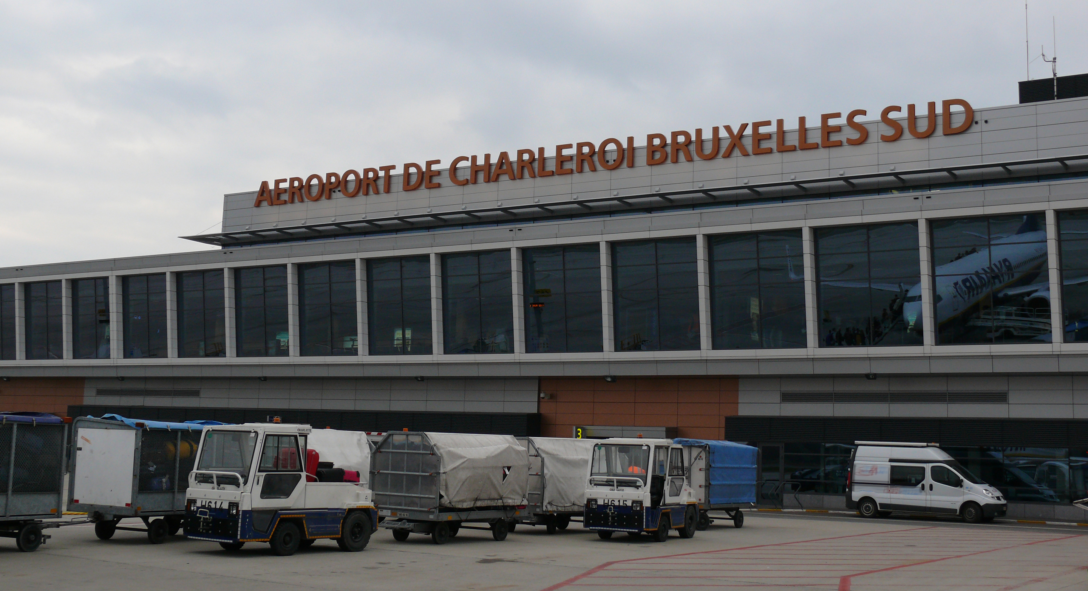 Main hall at Brussels South Charleroi Airport